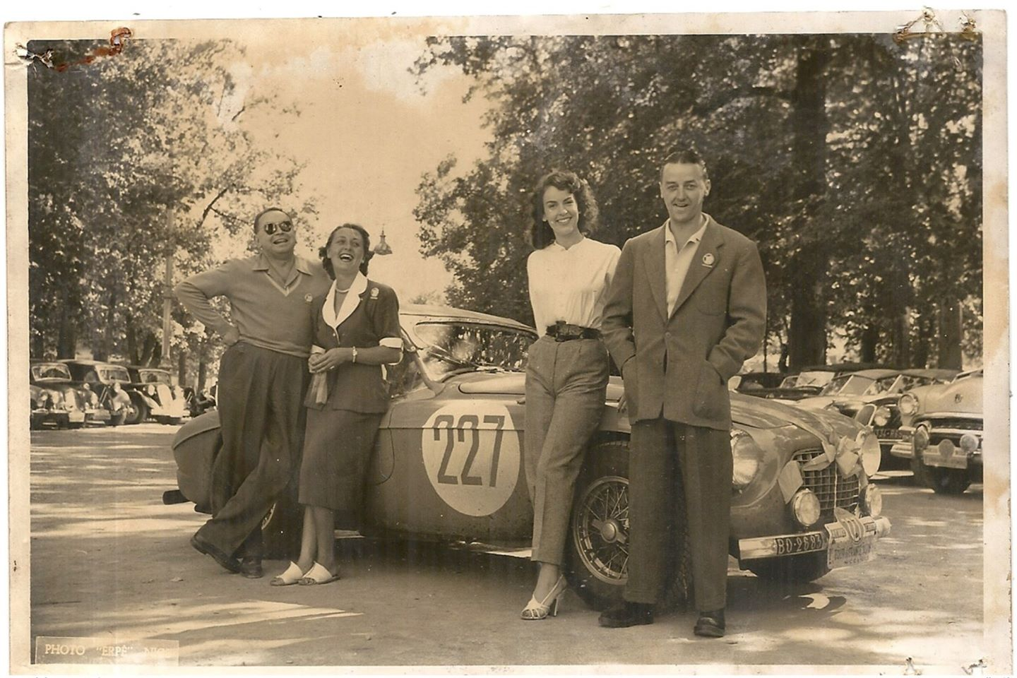 1951 Tour de France automobile was won by Pierre "Pagnibon" Boncompagni (far left) and navigator Alfred Barraquet driving the 1951 Ferrari 212 Export Touring Barchetta s/n 0078E. The race was 5 239 km and started 30 August in Nice and lasted to 12 September 1951 with arrival back in Nice. Boncompagni was from Nice and the car was borrowed from US Ferrari importer Luigi Chinetti.[1] The lady with a white shirt is seen posing with other drivers from the same rice, so probably not related to the drivers.[2]